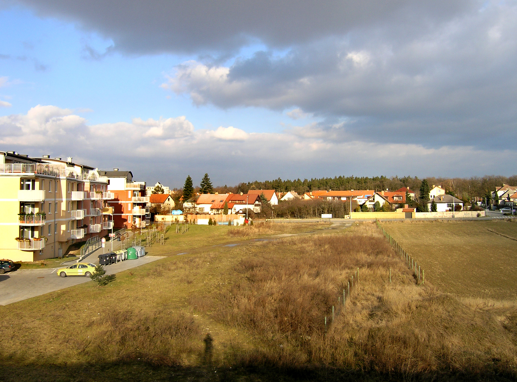 South part of Kateřinky district, Prague